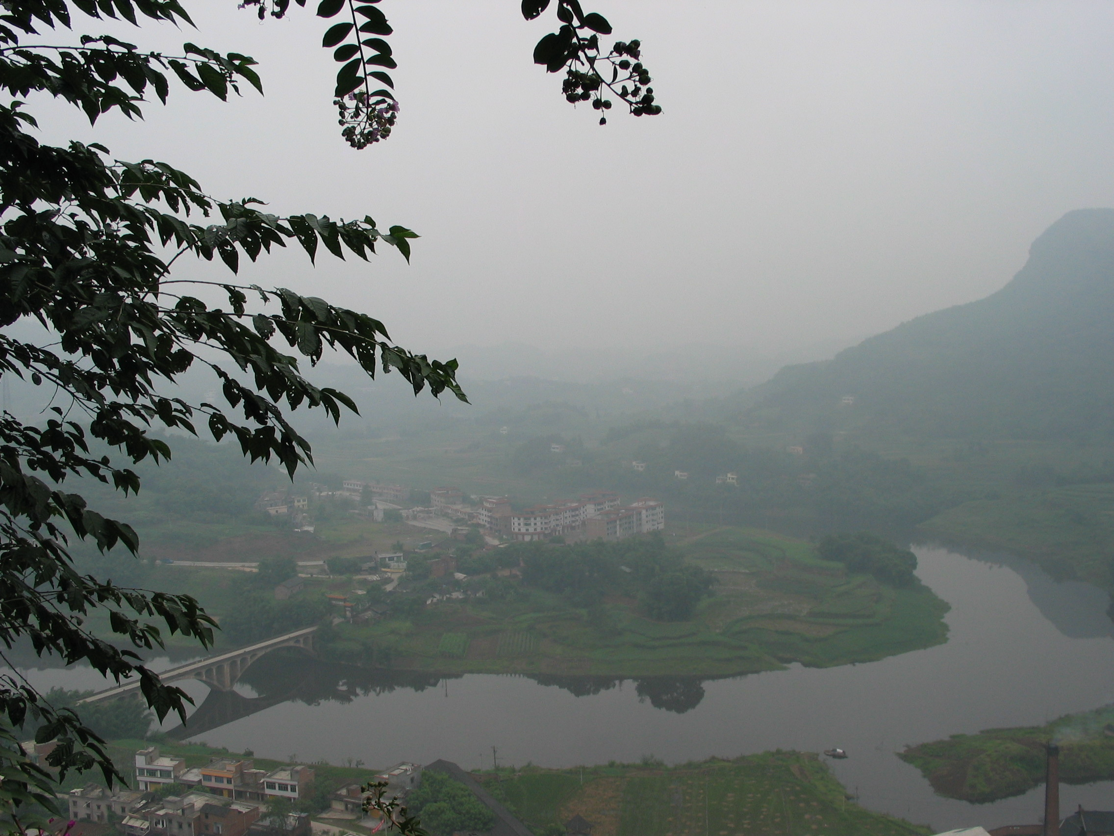 Geography of Luzhou, Sichuan, China